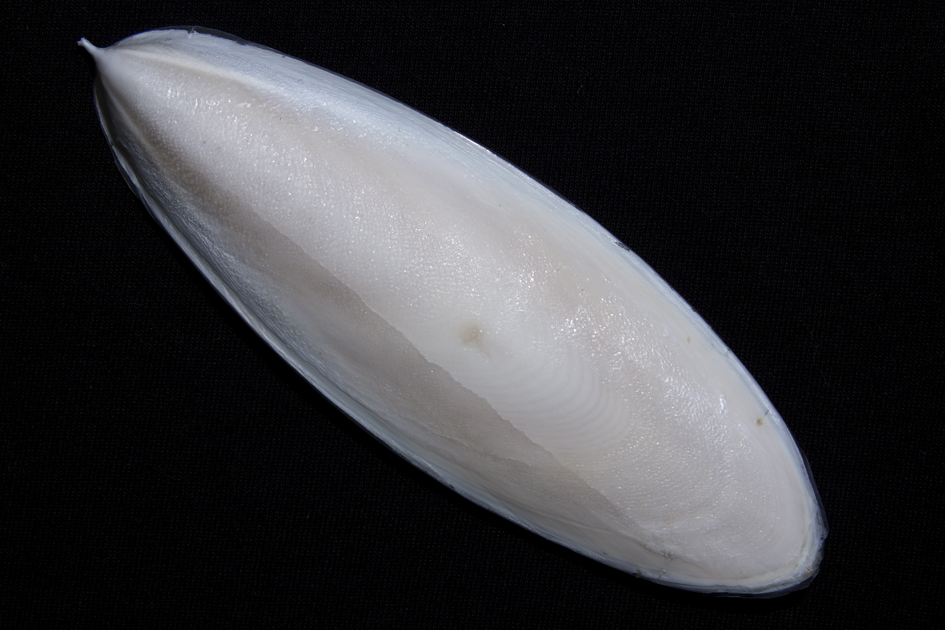 Dorsal surface of a cuttlebone, the buoyancy organ and internal shell of a cuttlefish (Outside). It may be the sepion of Kisslip cuttlefish (Sepia lycidas) because of its outline and thickened inner cone of the ventral side (identified by User:Kingfiser).